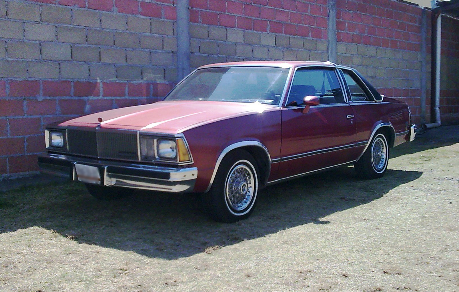 Chevrolet Malibu Classic coupe Landau, mexican made and sold in,many differences were incorporated to US models.